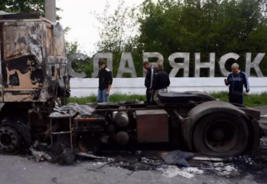 Locals near the city of Slavyansk (Sloviansk) sign after a truck was destroyed.